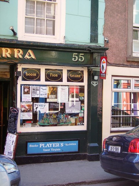 De Barra. Clonakilty Pub front, with lots of music posters.